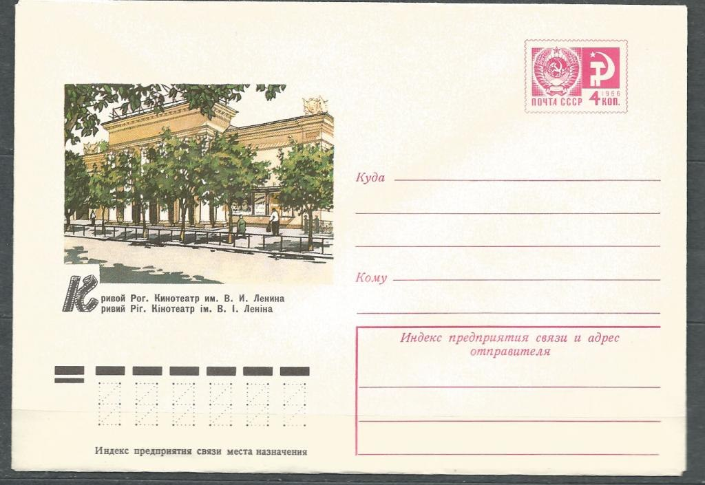 Krivoi Rog Soviet Post cover